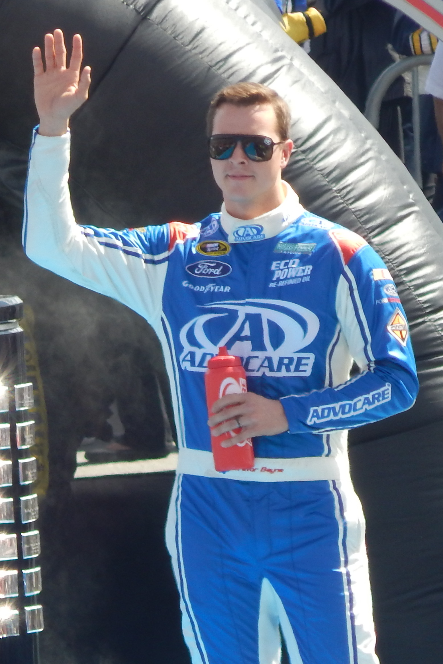 Trevor Bayne being introduced at Daytona International Speedway.